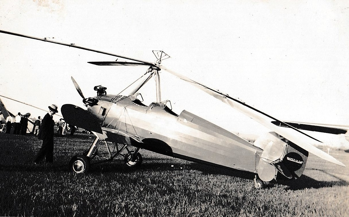 Photo inherited from my father, A. E. (Ted) Hill. John E. Hill